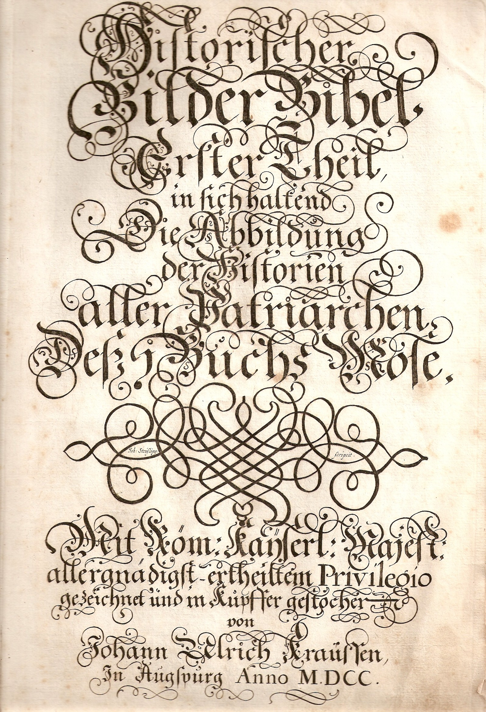 Title of the first part of a bible, engraved by Johann Ulrich Krauß (Augsburg, Germany)